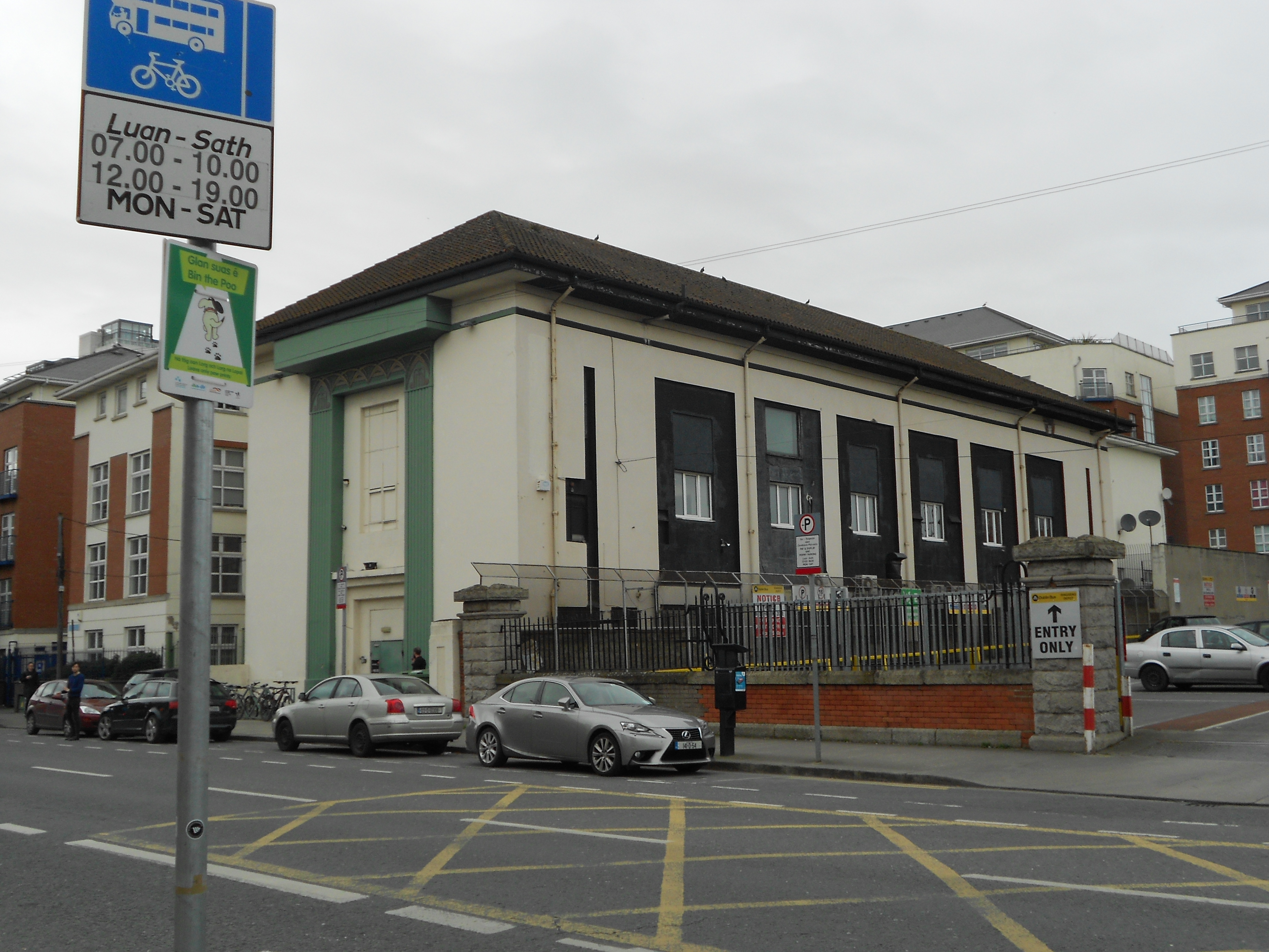 The Dublin United Tramway Powerhouse on Ringsend Road in Dublin. Although this building is not on the street called Windmill Lane it housed the Windmill Lane Recording Studios company. In 1990 Windmill Lane Recording Studios moved from Windmill Lane to the former tram powerhouse.